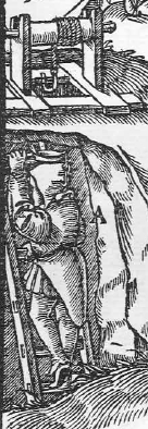 Medieval miner, using a ladder to to go to the bottom of a shaft.